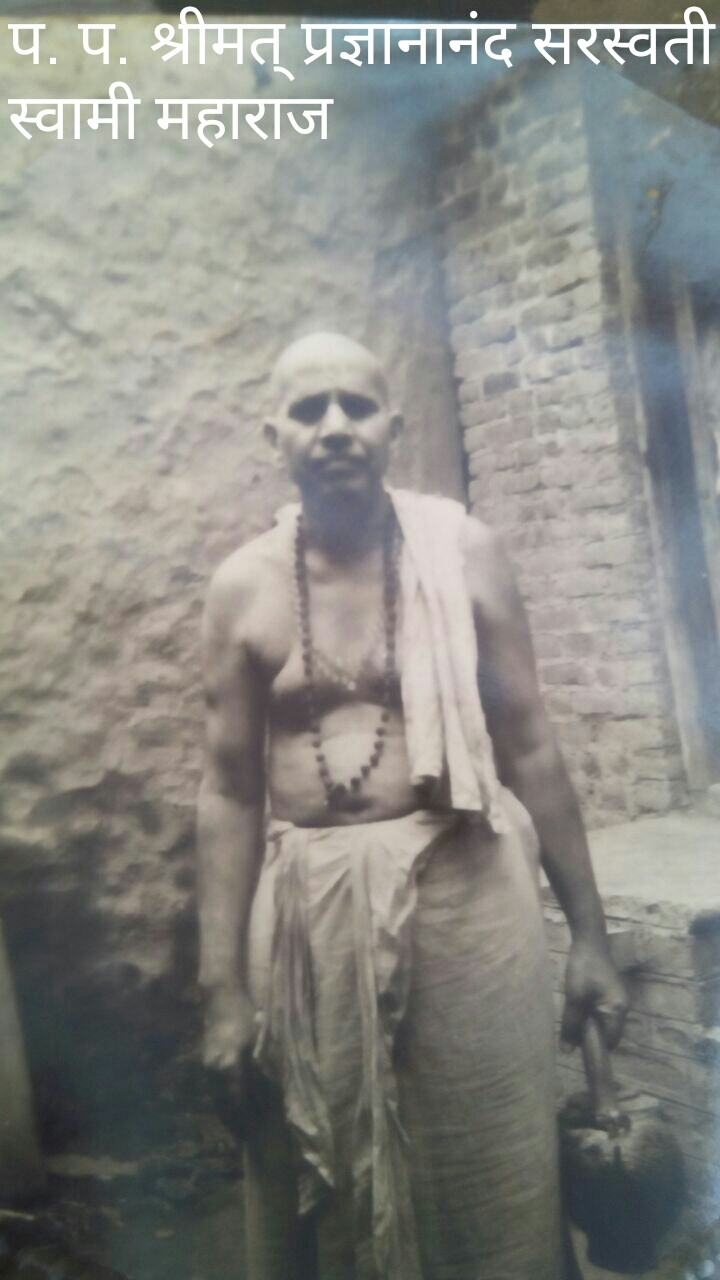 Paramhansa Parivrajakacharya Shri Pradnyanananda Saraswati Swami is famous as 'TULASIDASA Of Maharashtra'.